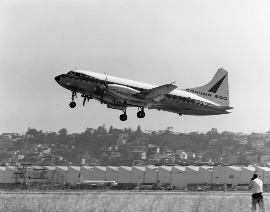 Pictionid67026286 - catalog0100094250 - title---convair 600 n94294 lindbergh field mfr 91067 - filename0100094250.tif ---Please tag this image so that info can be stored with our metadata. This material may be protected by Copyright Law (Title 17 U.S.C.)--Repository: San Diego Air and Space Museum